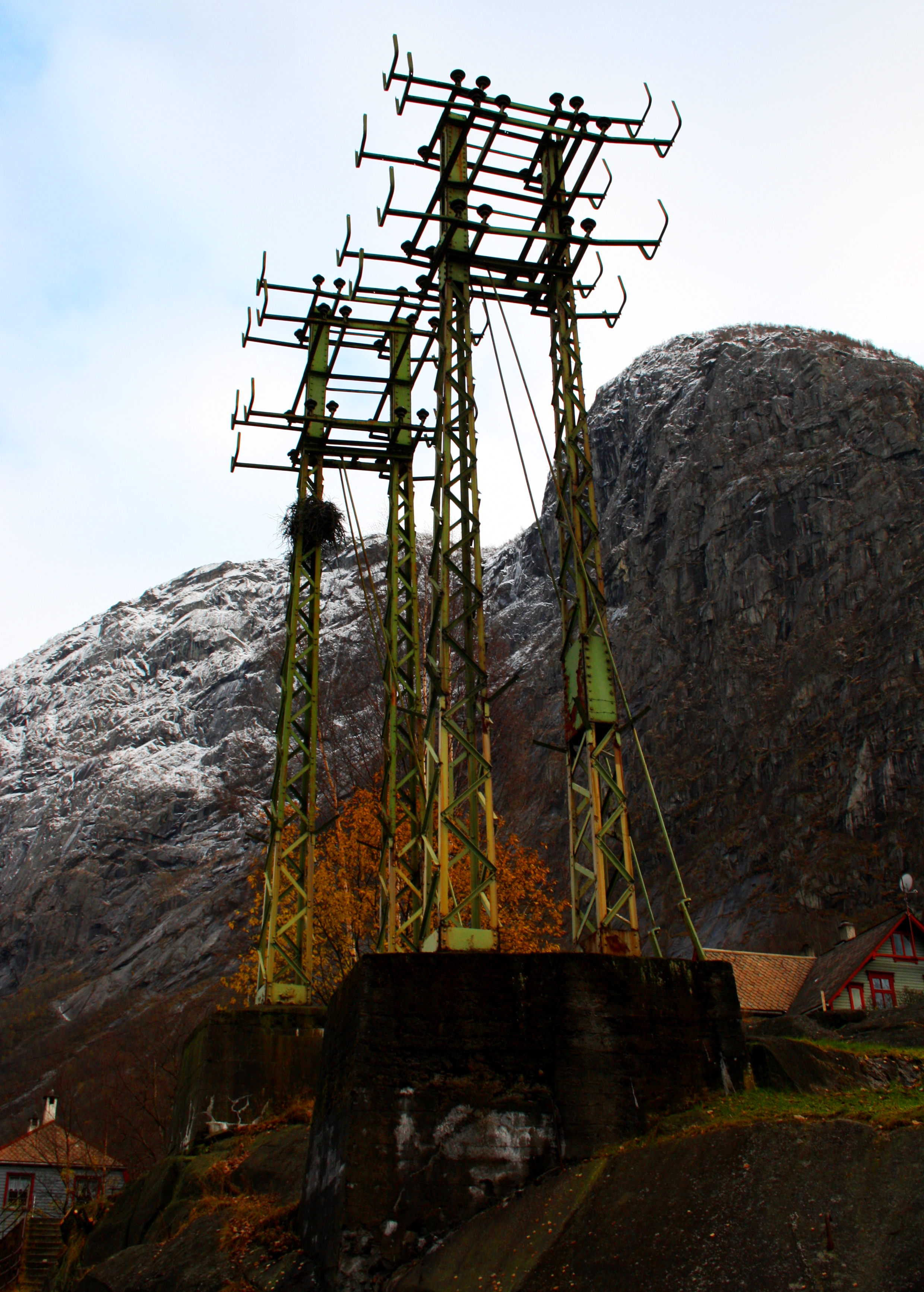 Transmission tower (pylon) in Tyssedal, Odda, Norway (1908/1913)